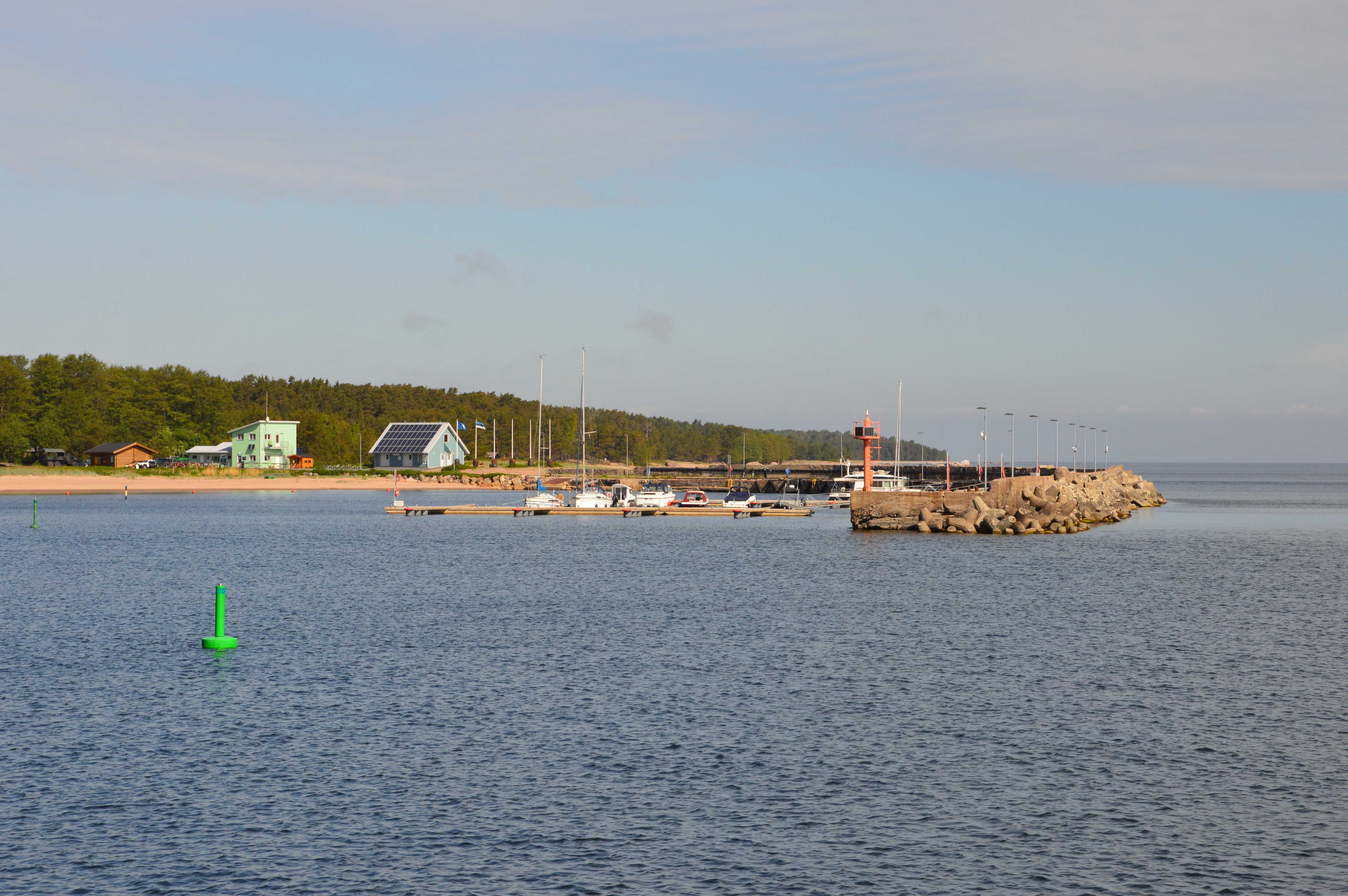 Port of Naissaar